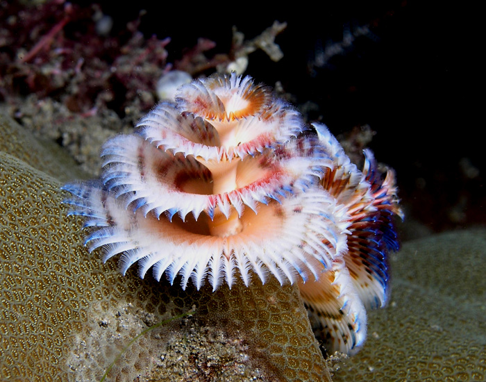 Christmas tree worm (Spirobranchus giganteus) in East Timor